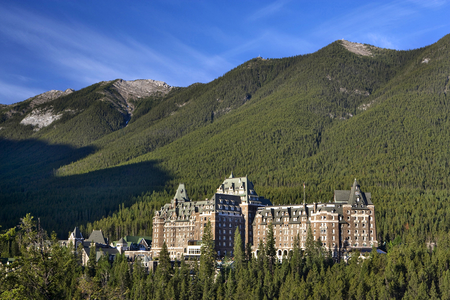 The Banff Springs Hotel is a large, Chateau-style hotel, built between 1911 and 1928. It is picturesquely situated at the foot of Sulphur Mountain in the town of Banff, within Banff National Park. The formal recognition consists of the building on its legal property at the time of recognition.